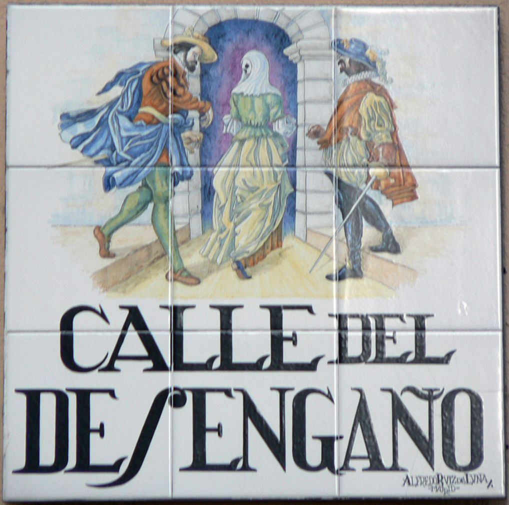 Sign of Calle del Desengaño (street, Centro district) in Madrid (Spain).